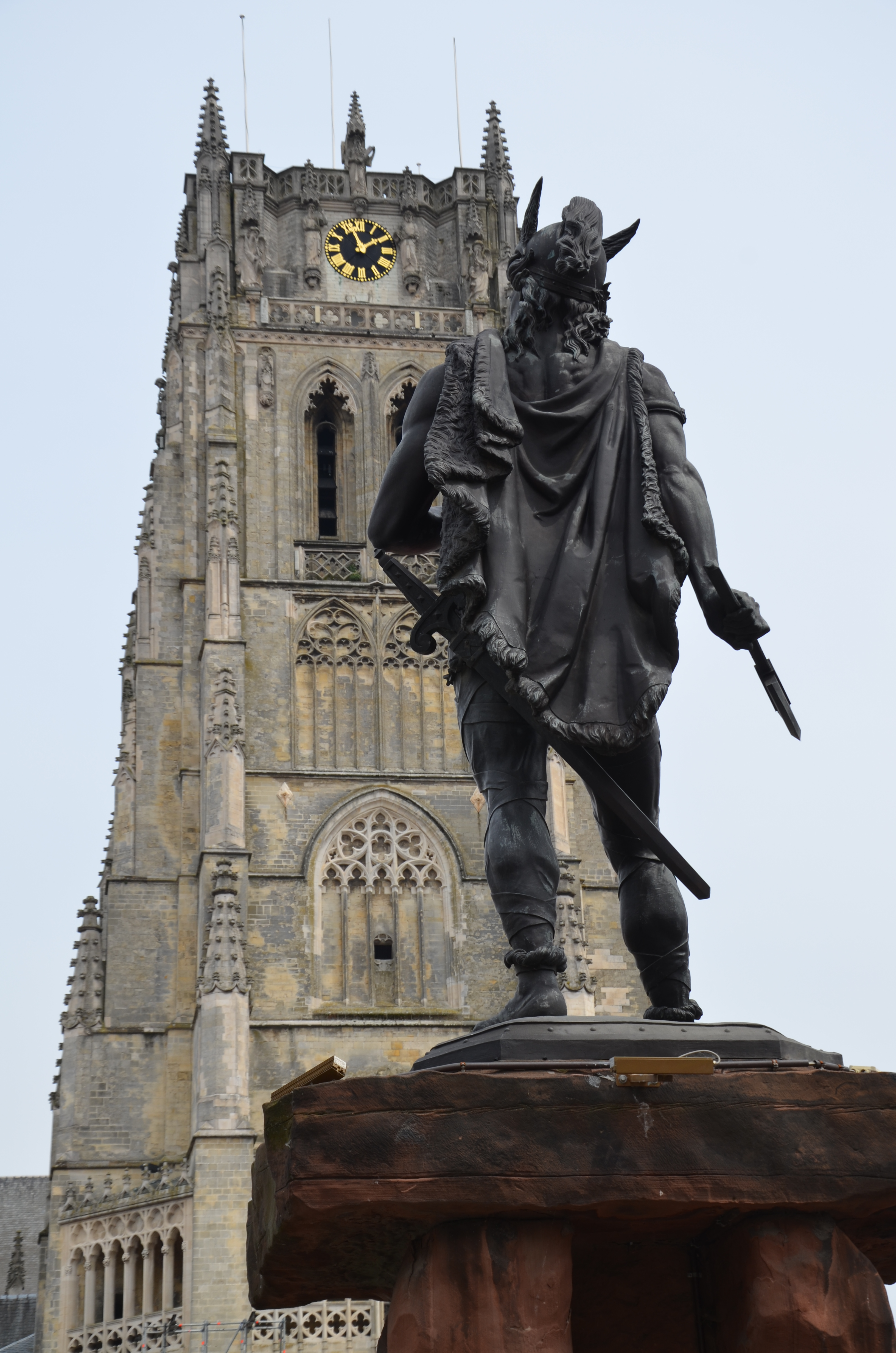 Statue of Ambiorix erected in 1866 in Tongeren, Belgium.